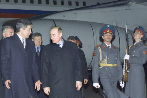 ALMATY. President Putin welcomed by Kazakhstan\'s Prime Minister Imangali Tasmagambetov at the airport.